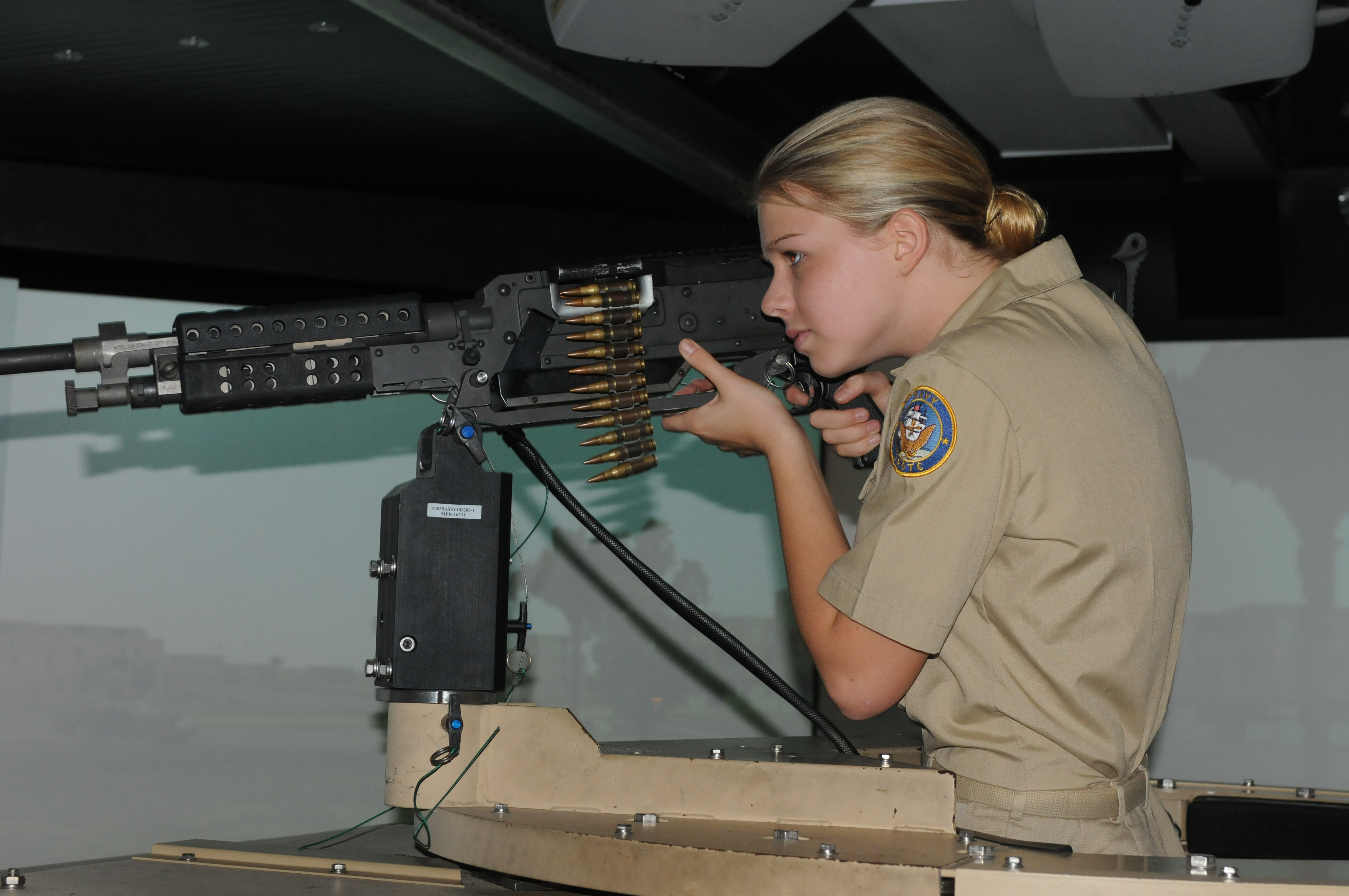 JROTC Cadet Emily Day, freshman at Brunswick High School and a member of their Navy Junior Reserve Officer Training Course program, fires a fake weapon during a virtual Close Combat Tactical Trainer during a field trip to Fort Stewart, Oct. 7